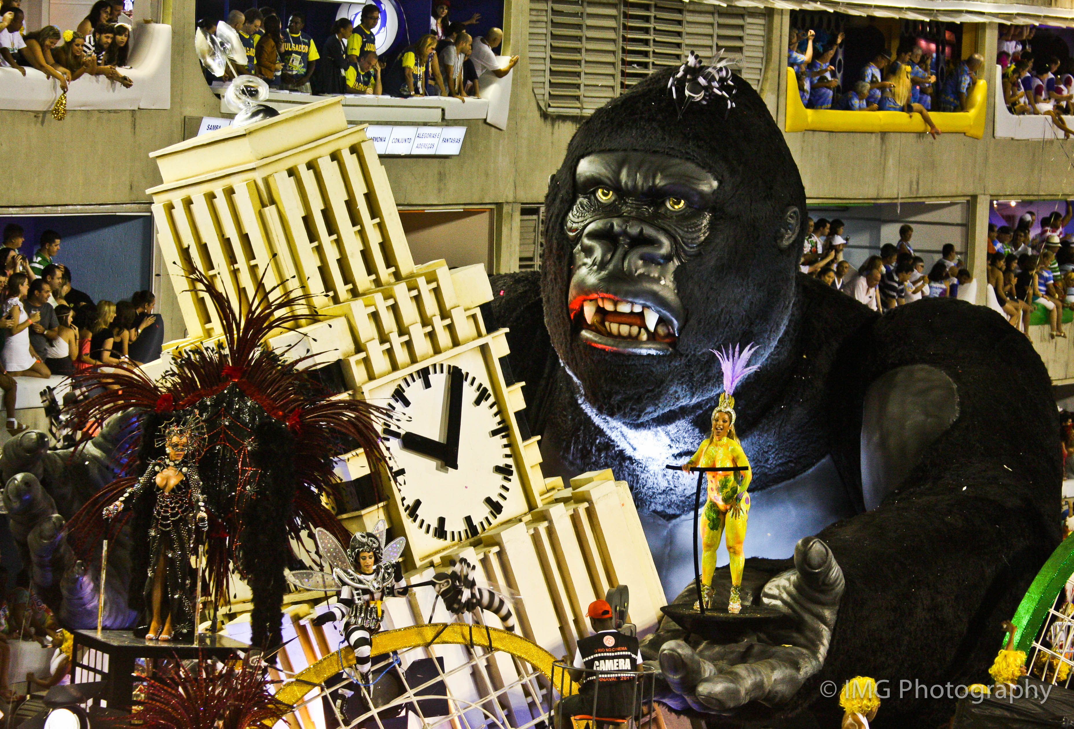 7th Float: Hollywood Is Here